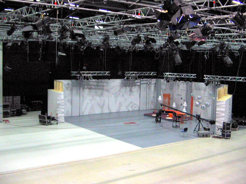 The right half of Studio 8 of the German TV-station B.TV/BTV4U.